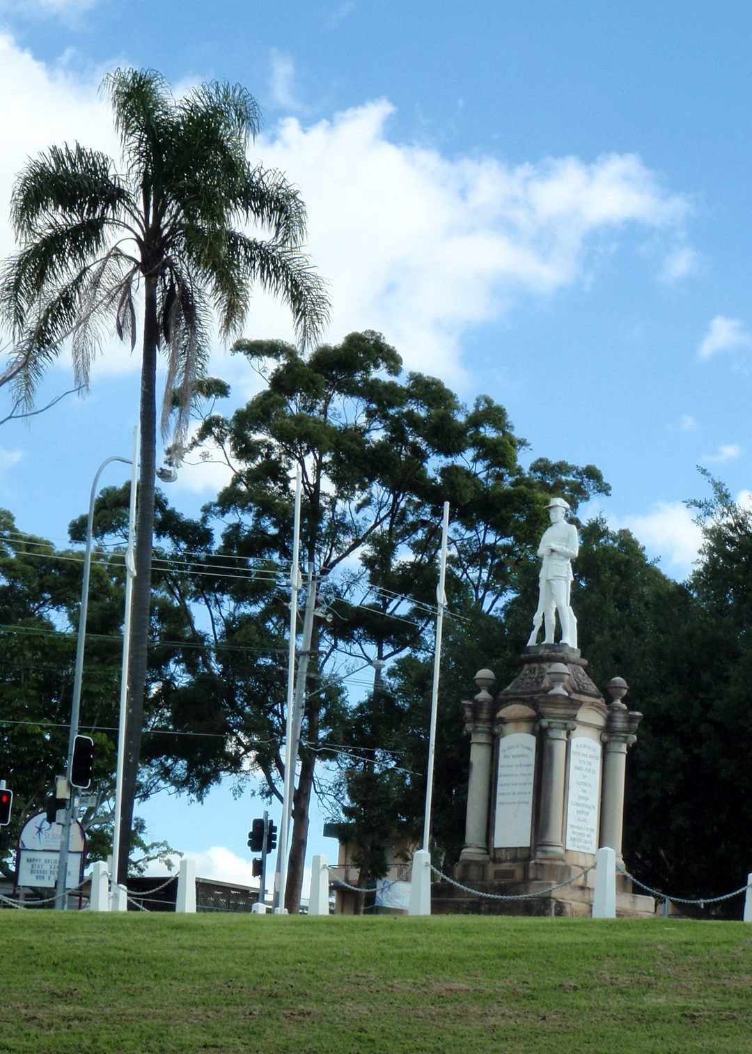 Nundah War Memorial viewed from the North East - originally unveilled by Queensland Governor Nathan on 12 November 1921